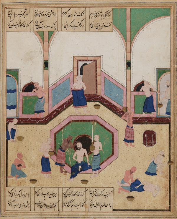 Folio from a Khamsa (Quintet) by Nizami; verso: Caliph al-Ma'mun and the barber; recto: text Ink, opaque watercolor and gold on paper H: 31.1 W: 15.6 cm Shiraz, Iran